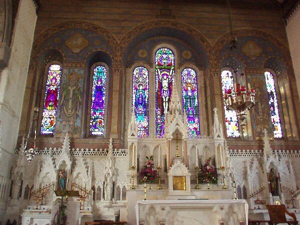 Altar and stained glass windows in St. Senan's Church, Kilrush. The stained glass windows were manufactured in 1932 by the Harry Clarke Studios (but not by Harry Clarke).